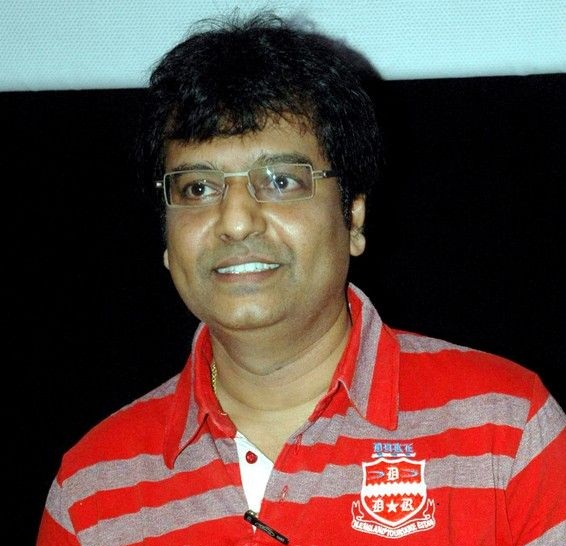 Just an attempt